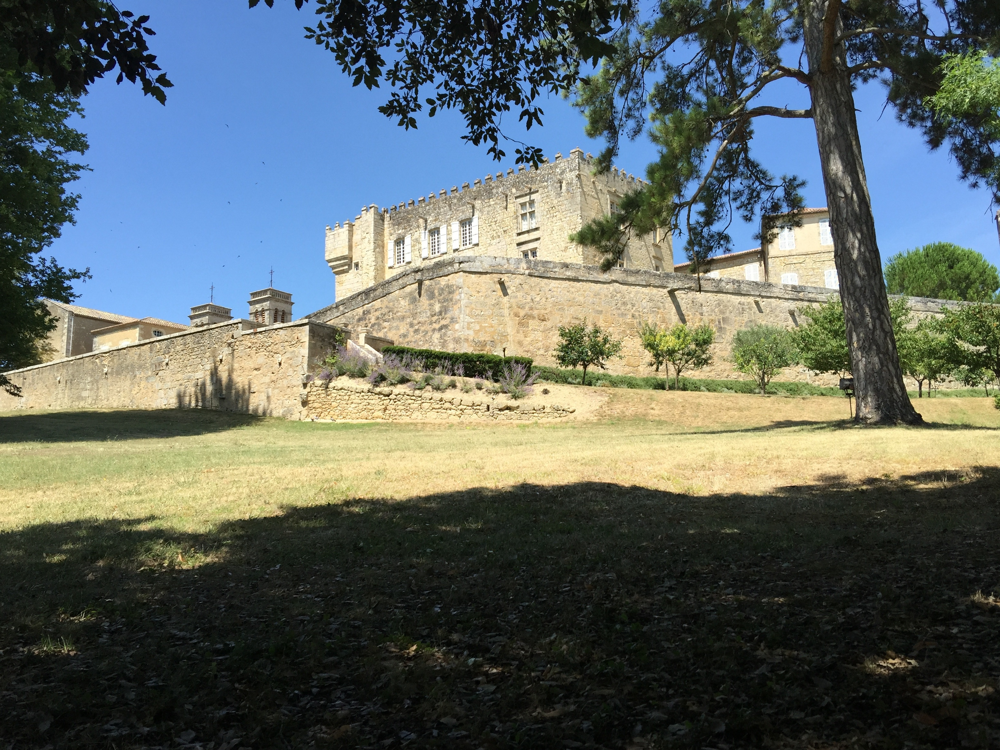 Terraube castle, south view, Gers, France .